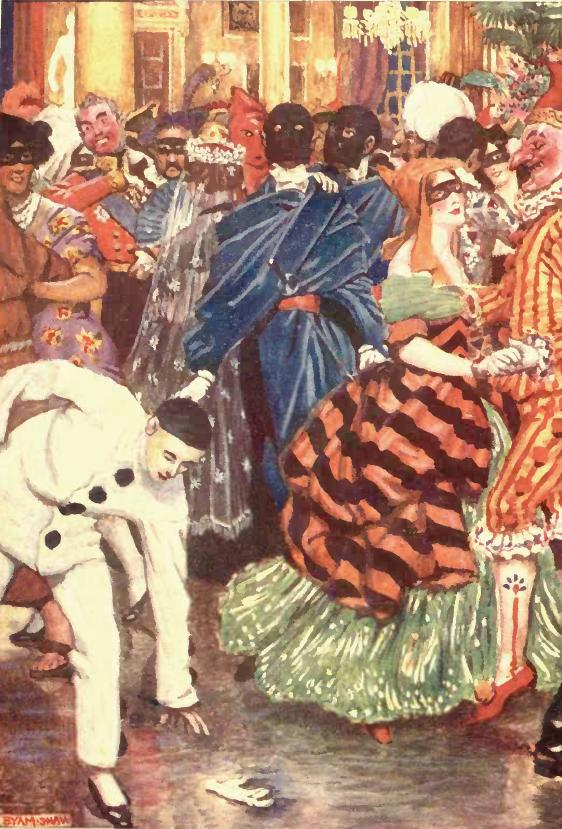 Byam Shaw's illustration for Poe's William Wilson in "Selected Tales of Mystery" (London : Sidgwick & Jackson, 1909) on the frontispiece with caption "A masquerade in the palazzo of the Neapolitan Duke Di Broglio"